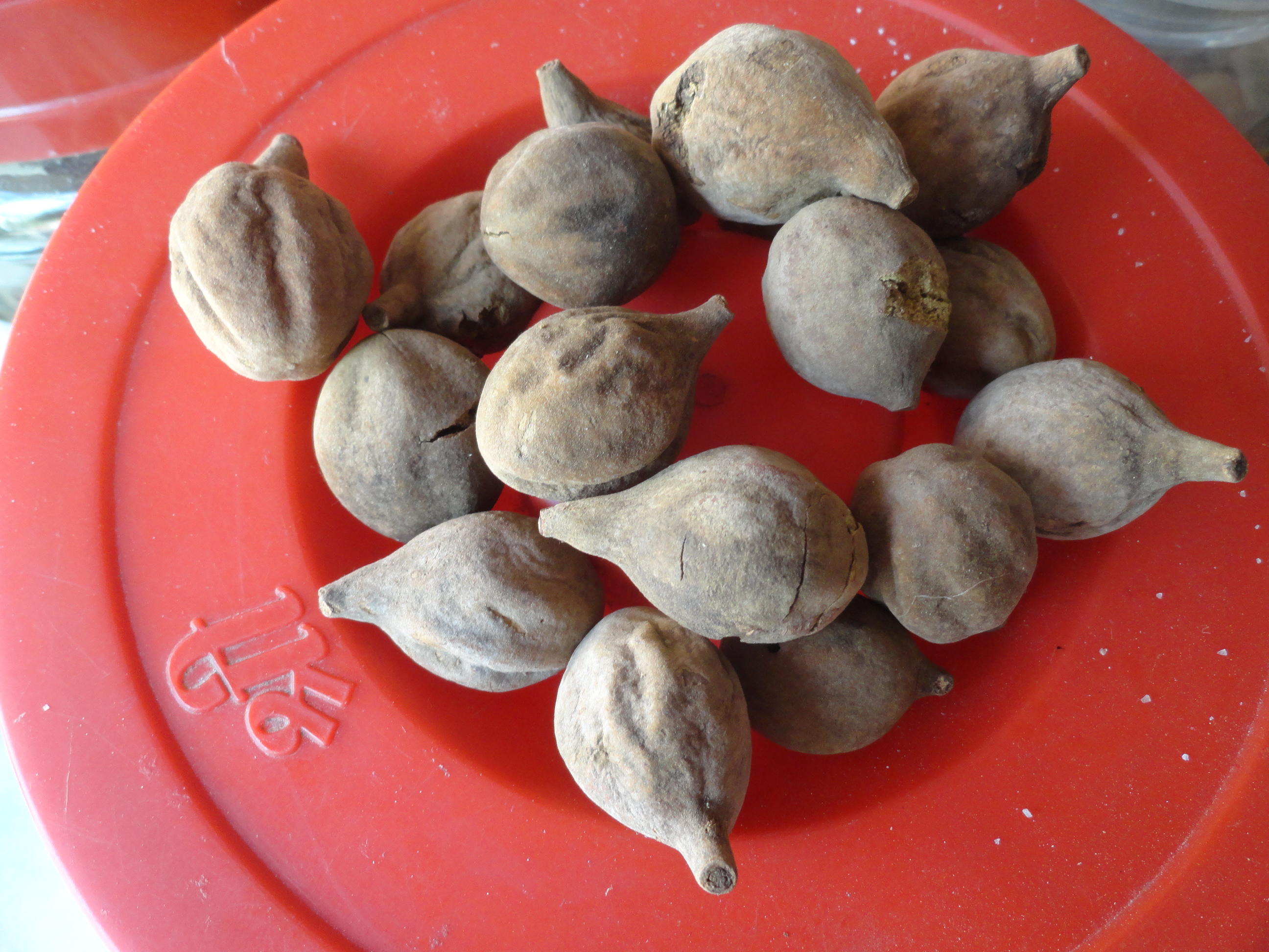 tani kaayalu